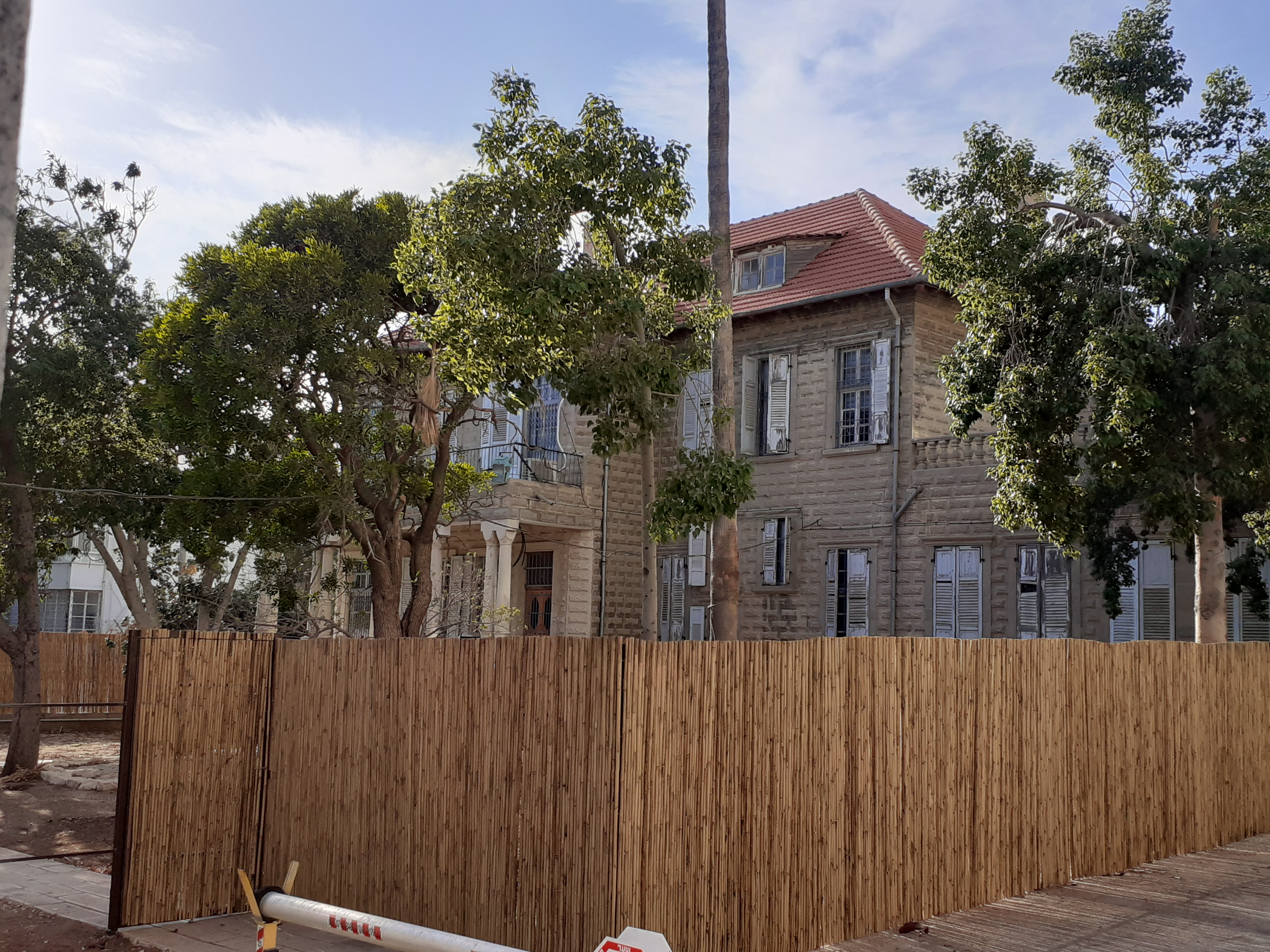 Former German Consulate on Rehov Eilat (רחוב אילת) at the corner with Rehov Aharon Chelouche (רחוב אהרן שלוש), Neveh Tzedeq, Tel Aviv 1913–1915 by Karl Appel